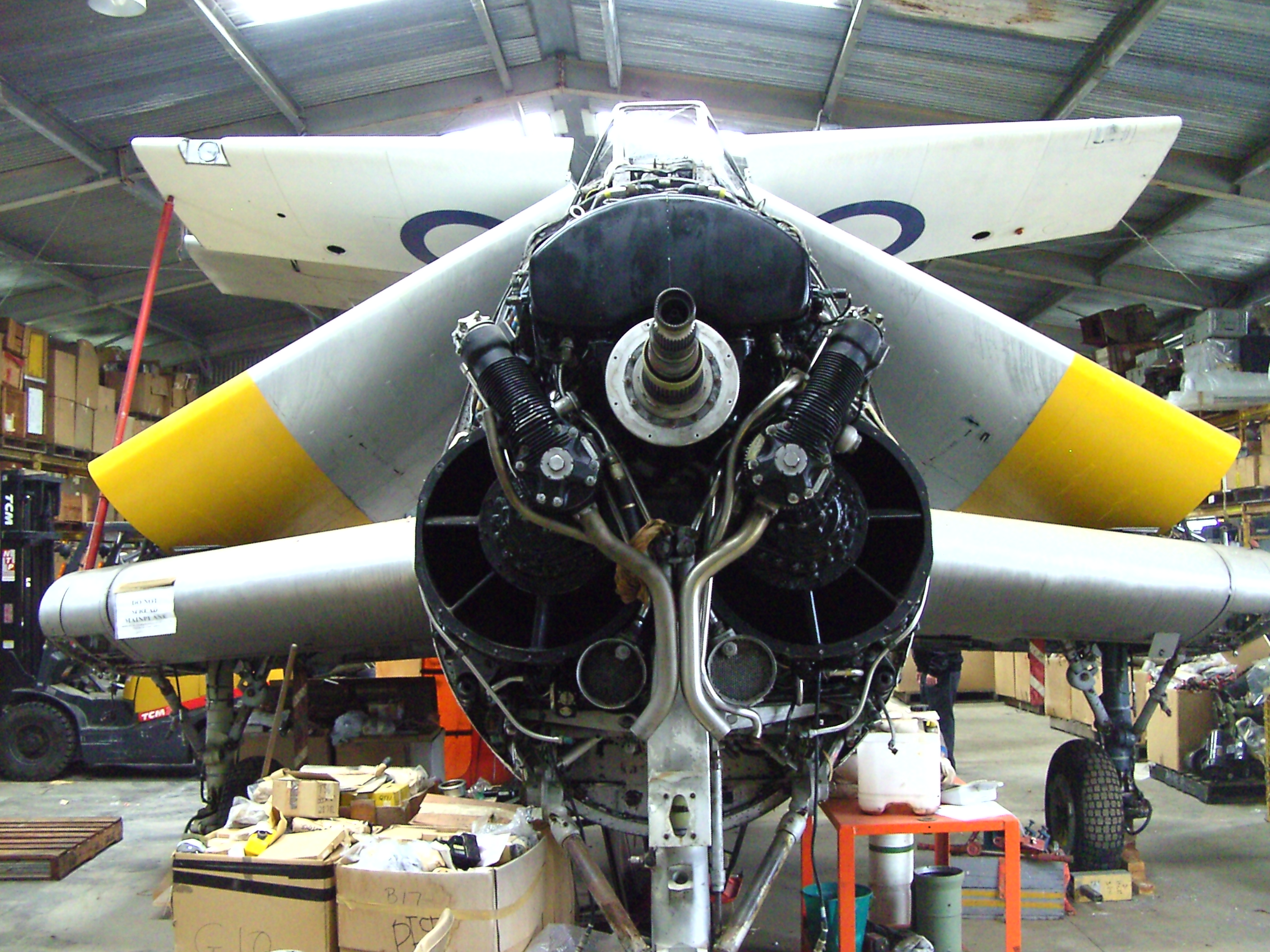 Armstrong Siddeley Double Mamba in a non-display Fairey Gannet at the Royal Australian Navy Fleet Air Arm Museum, HMAS Albatross (air station).